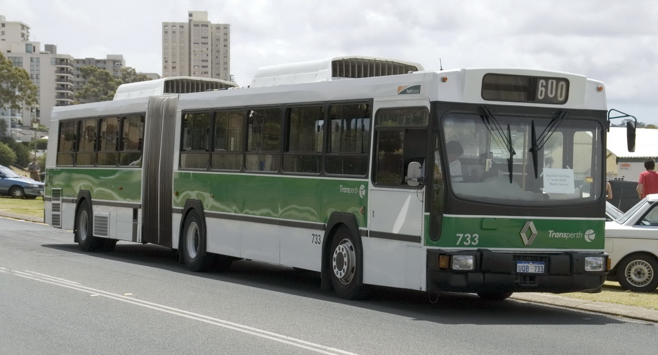 Transperth Renault PR180-2 Artic bus #733, operated by Path Transit.